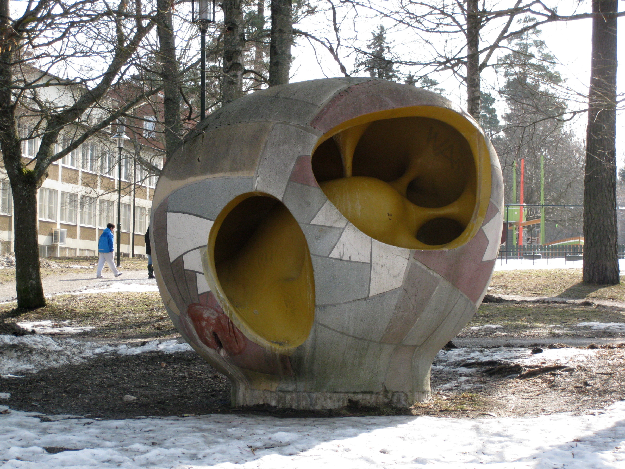 The play-sculpture Ägget ("The Egg", 1952) by Egon Möller-Nielsen in Fagerlidsparken, Hökarängen, southern Stockholm, Sweden